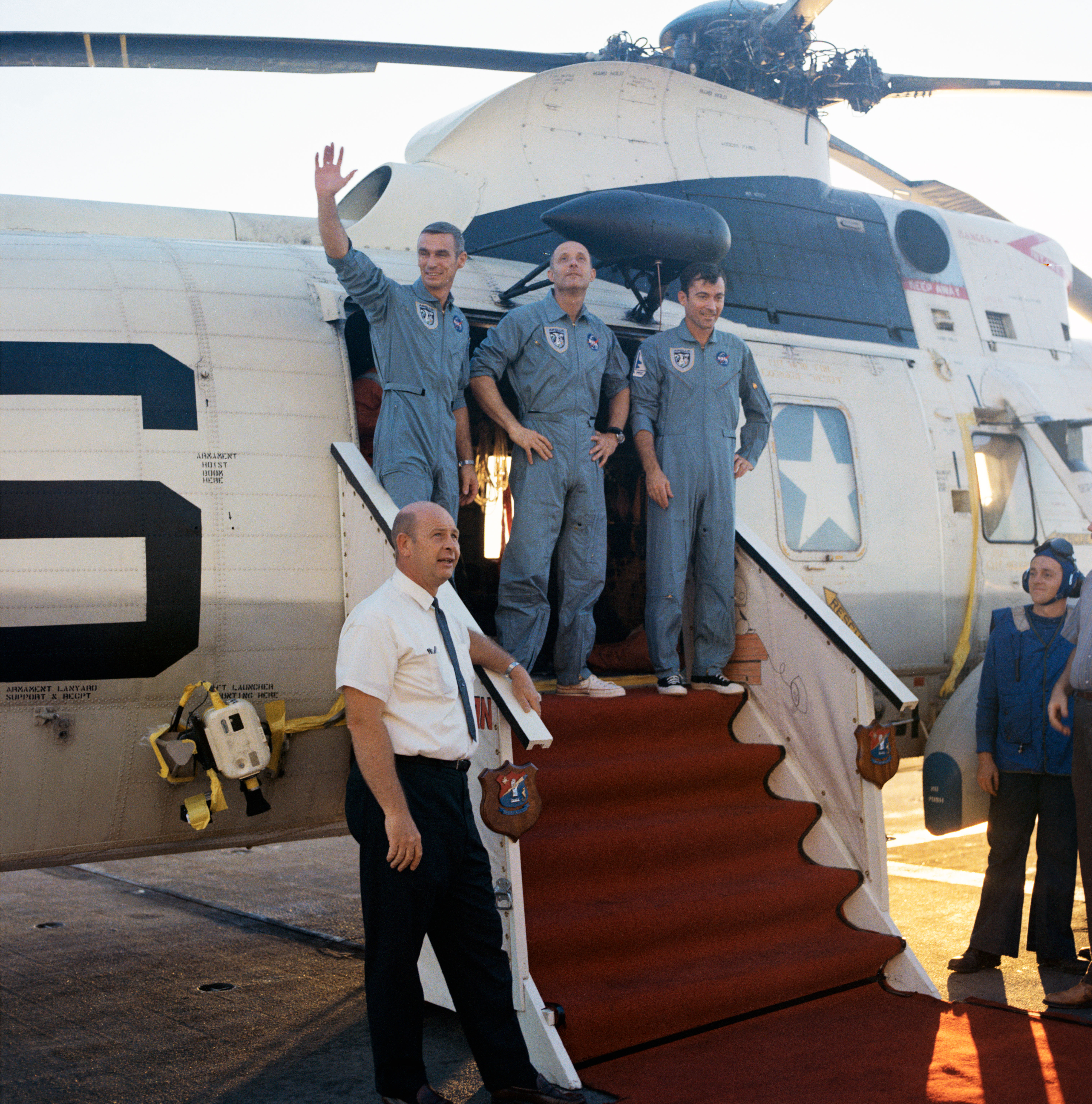 S69-20544 (26 May 1969) --- The Apollo 10 crewmembers arrive aboard the USS Princeton as they step from a helicopter to receive a red-carpet welcome. Left to right, are astronauts Eugene A. Cernan, lunar module pilot; Thomas P. Stafford, commander; and John W. Young, command module pilot. Splashdown occurred at 11:35 a.m. (CDT), May 26, 1969, in the South Pacific about 400 miles east of American Samoa, and about four miles from the USS Princeton, to conclude a successful eight-day lunar orbit mission. Standing in left foreground is Dr. Donald E. Stullken, chief, Recovery Operations Branch, Landing and Recovery Division, Manned Spacecraft Center.